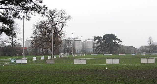 Widemarsh Common